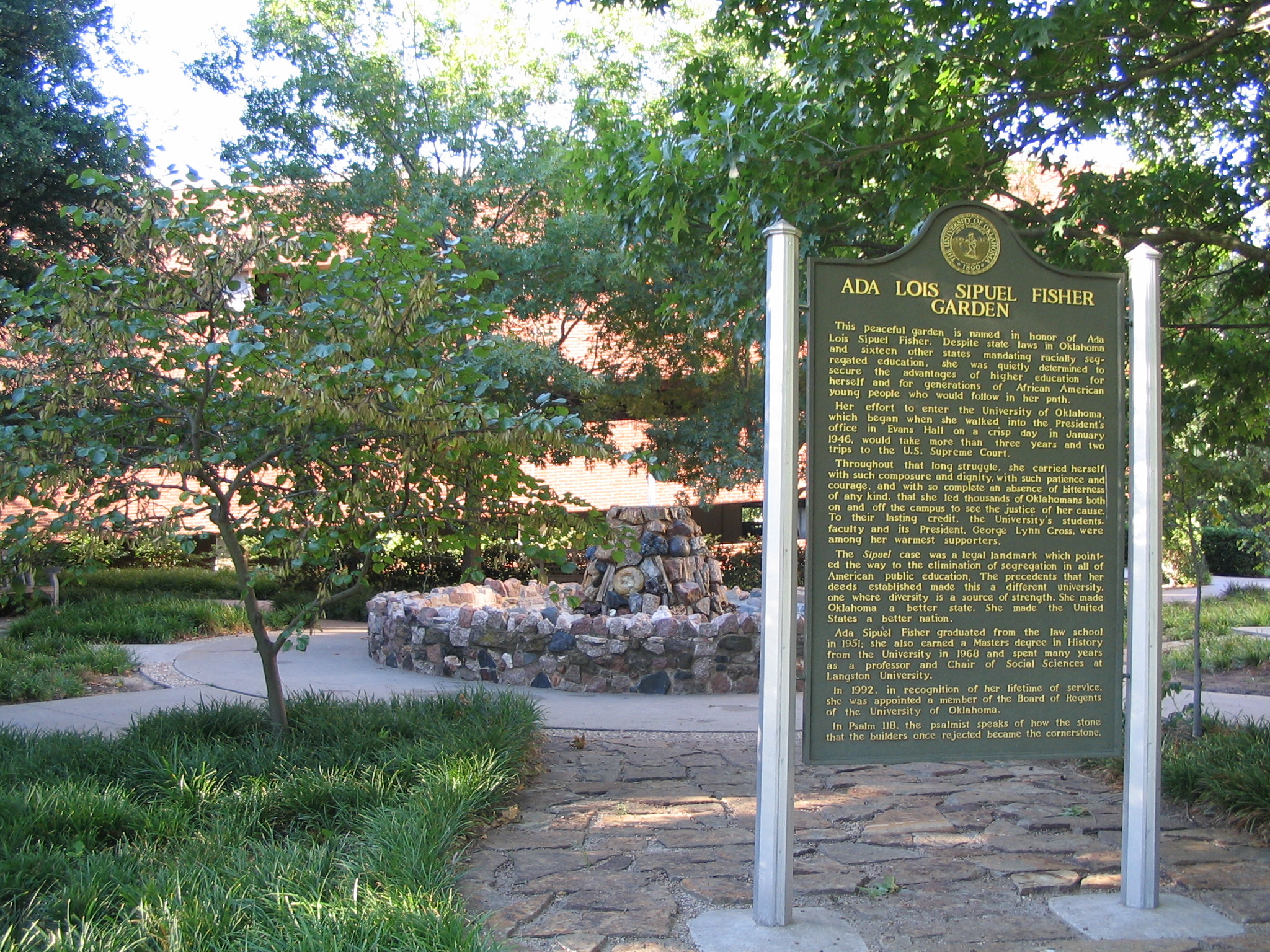 A view of the Ada Lois Sipuel Fisher Garden on the campus of the University of Oklahoma in Norman, OK.